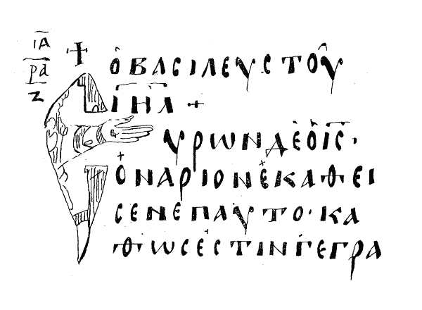 contains text of John 12:13-14 (facsimile edition)